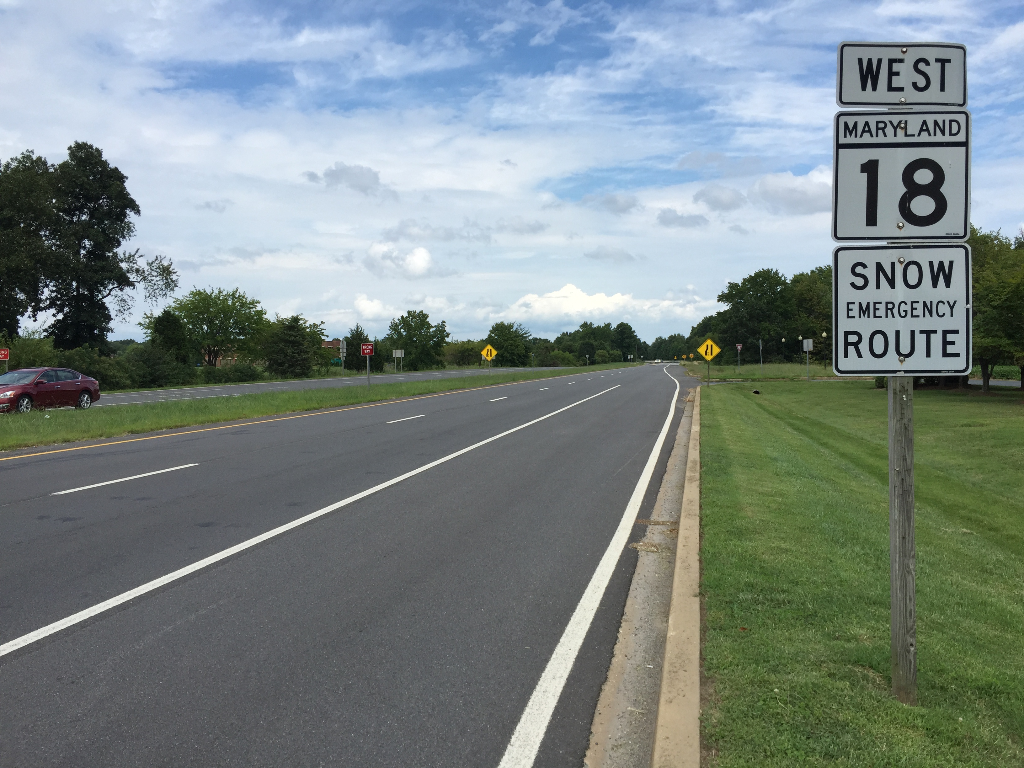 View west along Maryland State Route 18 (Business Parkway) at Maryland State Route 8 (Romancoke Road) in Stevensville, Queen Anne's County, Maryland